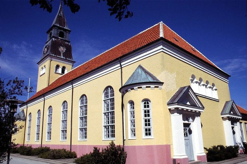 Skagen Kirke (church) in Frederikshavn Kommune.